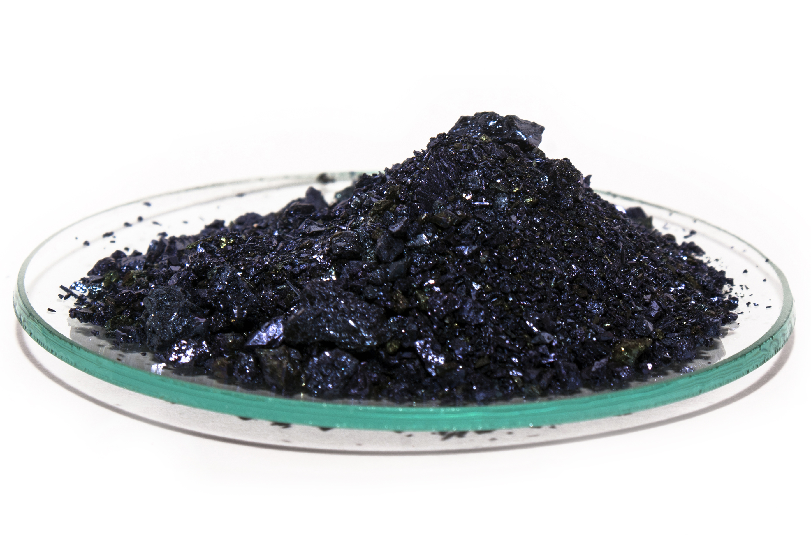 Potassium permanganate sample